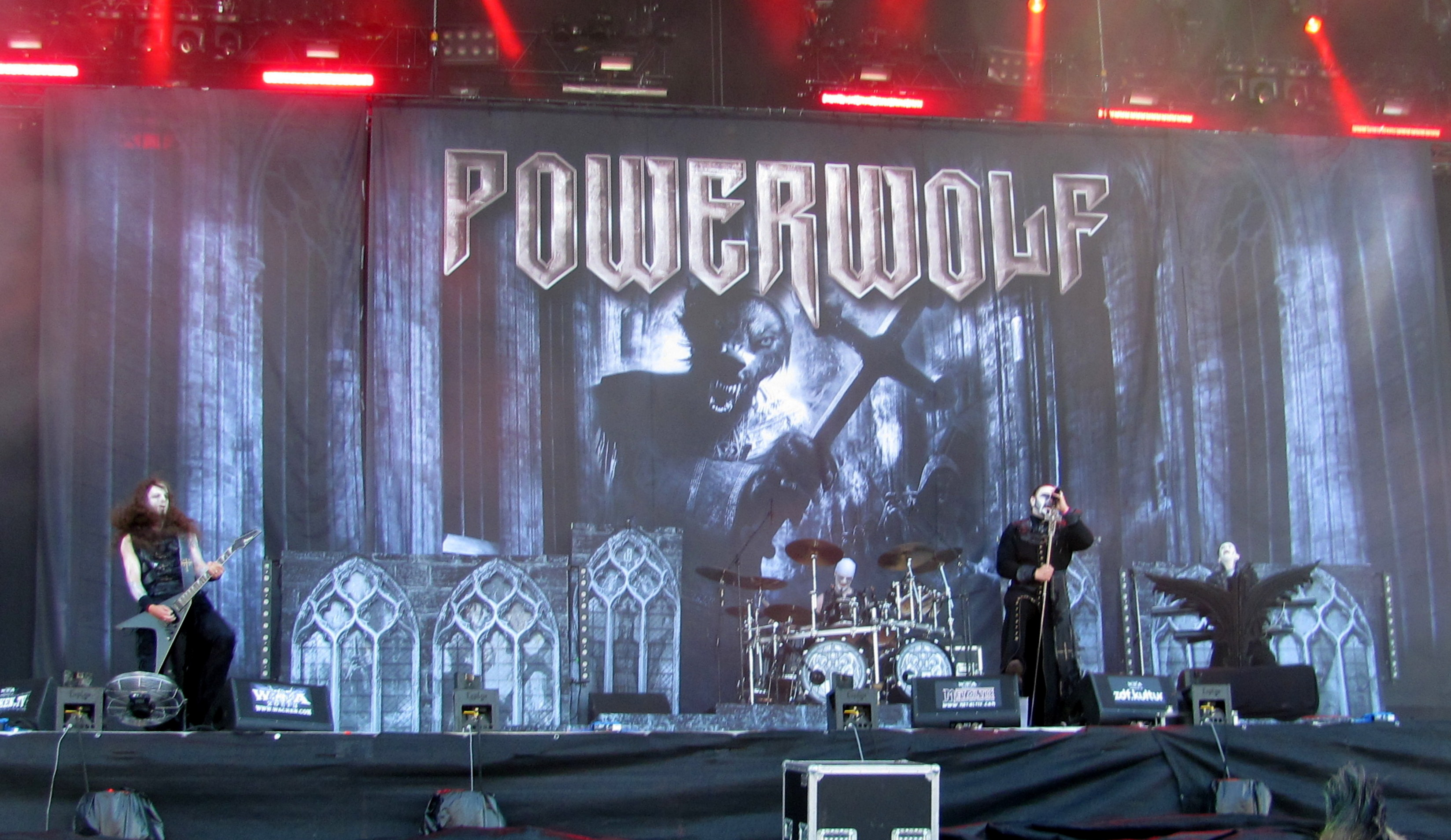 Powerwolf at Wacken 2013